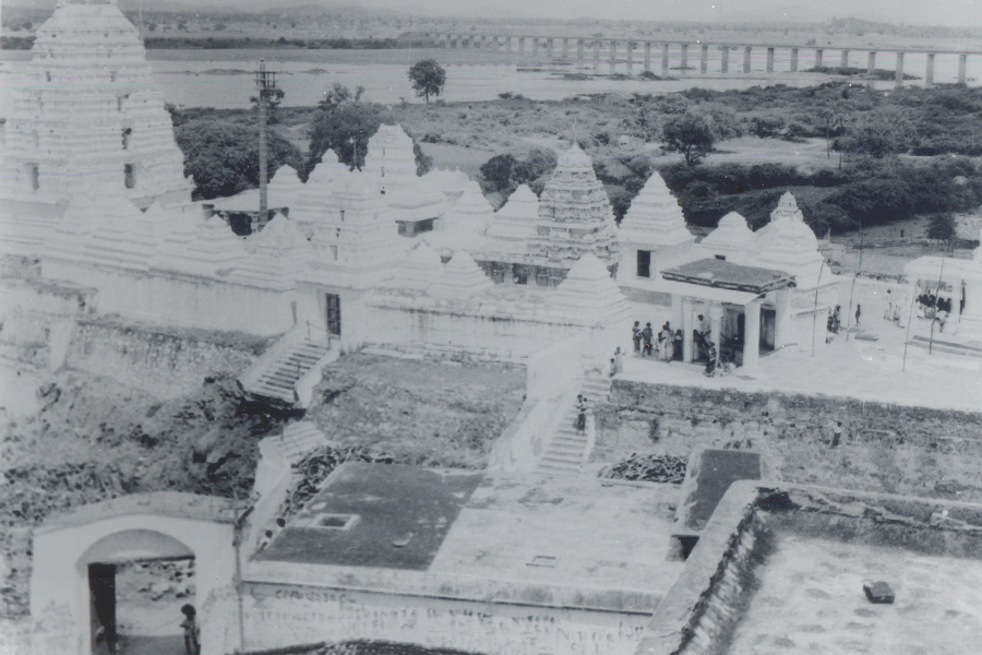 a collection of old photos of bhadrachalam temple